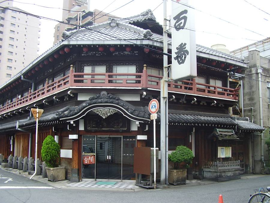 A restaurant in Tobitashinchi